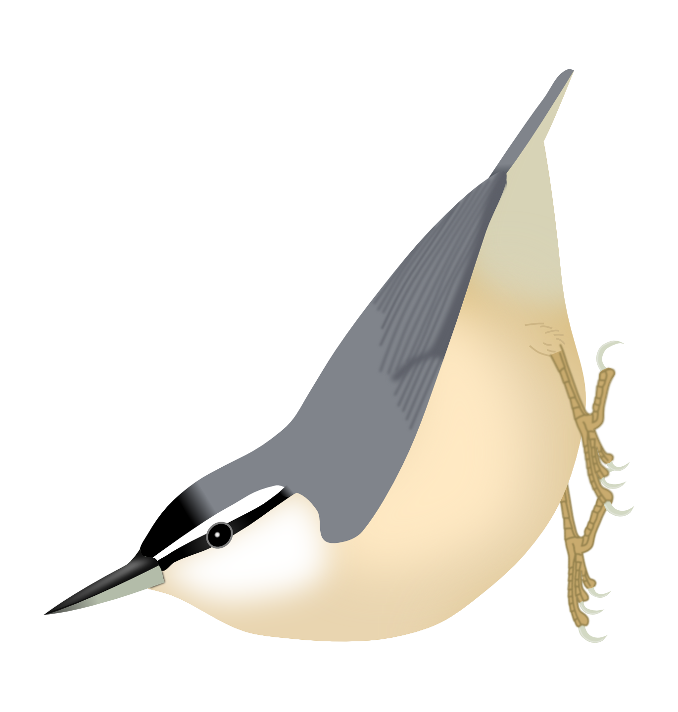 Sitta ledanti